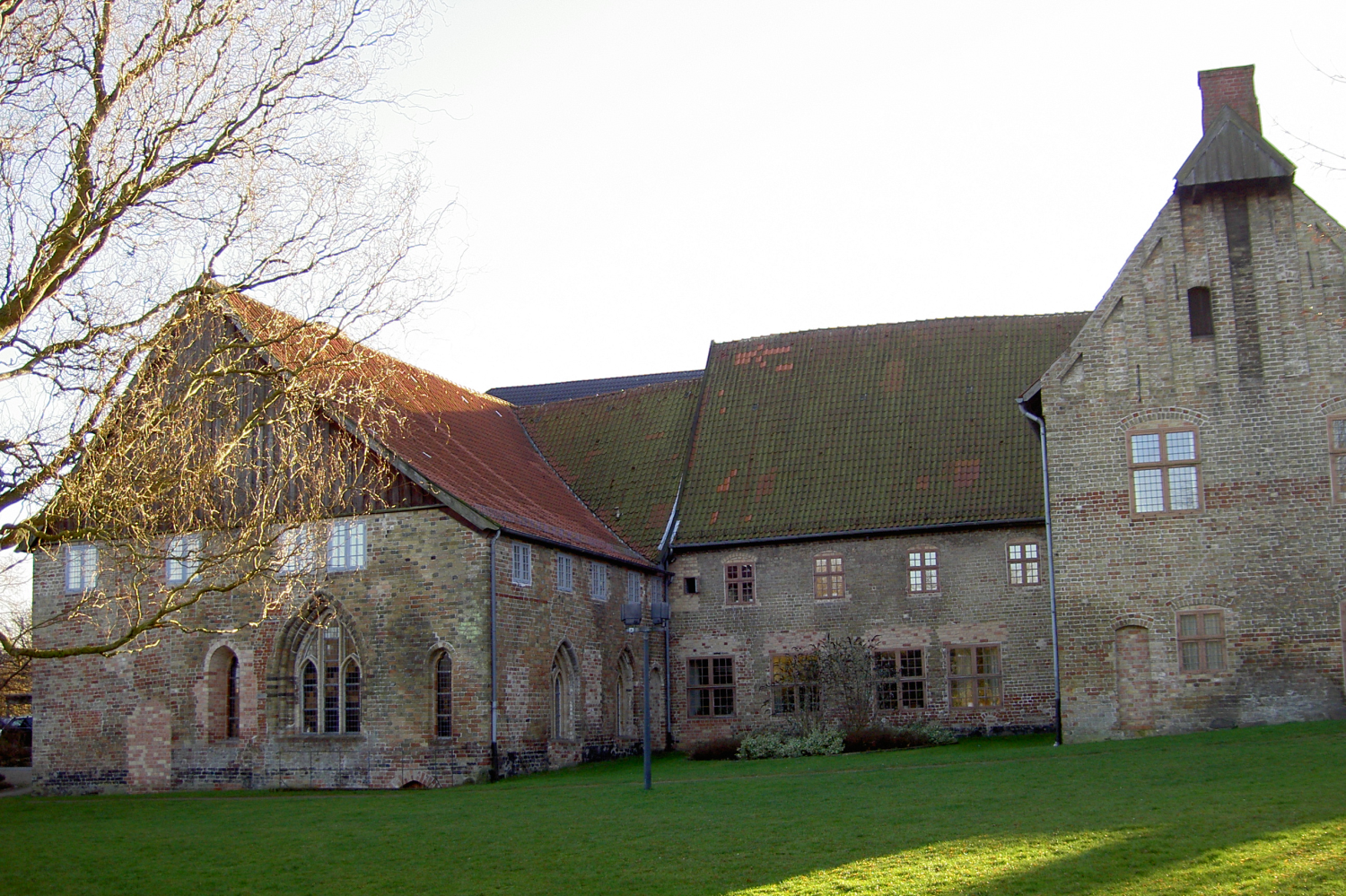 Graukloster in Schleswig.